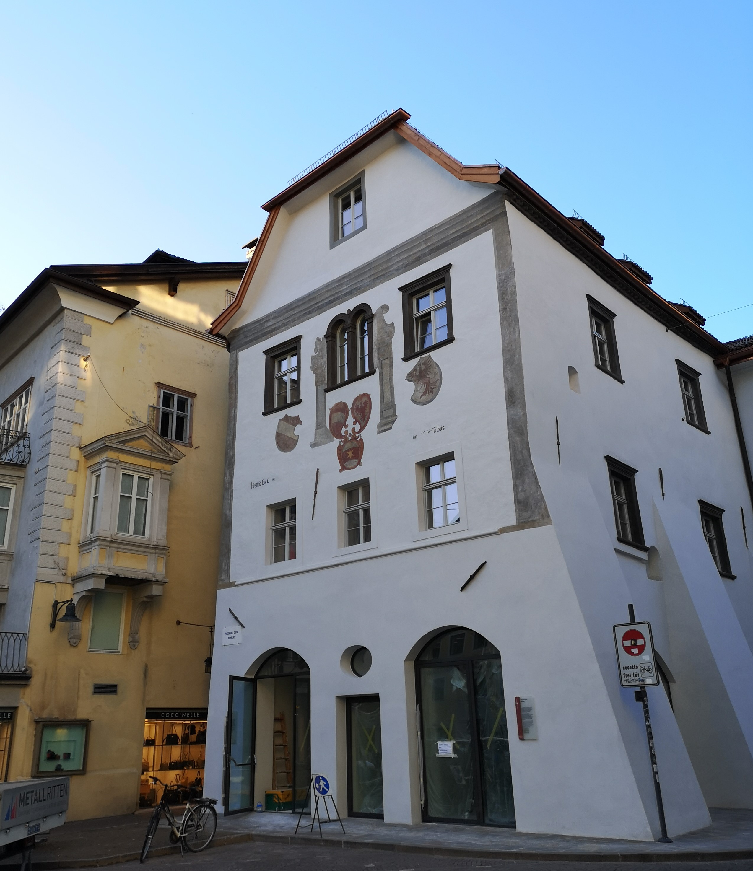 The Bozen-Bolzano Waaghaus in 2019